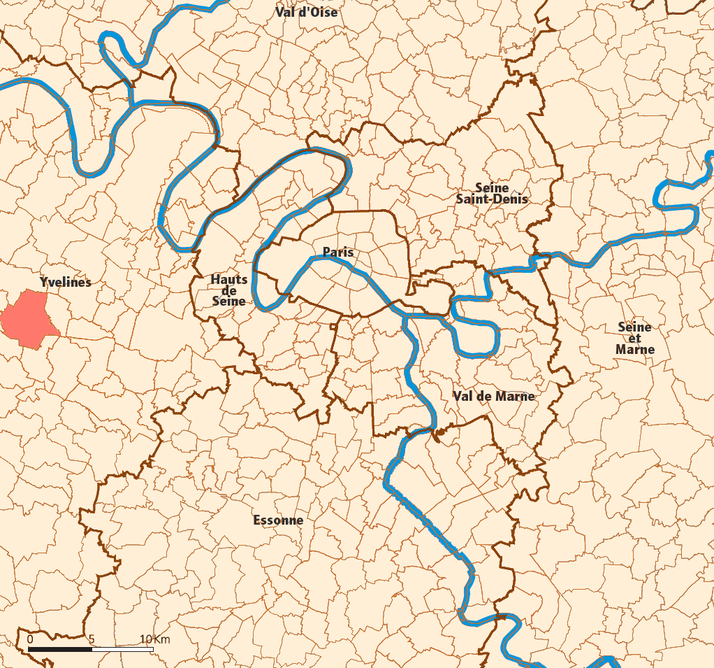 Created map myself.